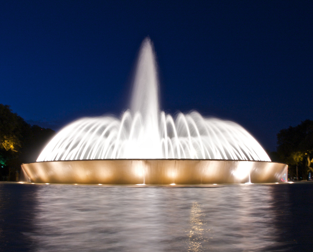 One of the Mecom fountains found in Hermann Park in Houston, TX.